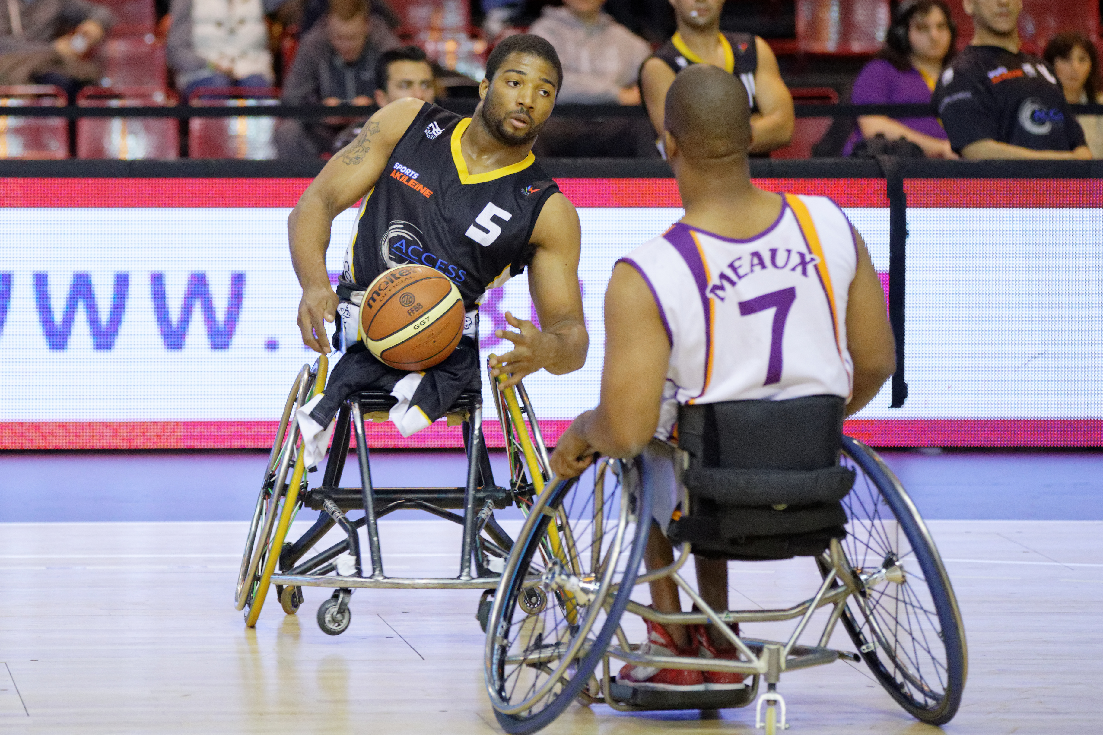 Final of the French Wheelchair Basketball Cup, CS Meaux vs Le Cannet, 1st May 2015.